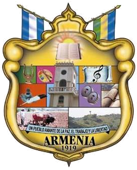 City Logo